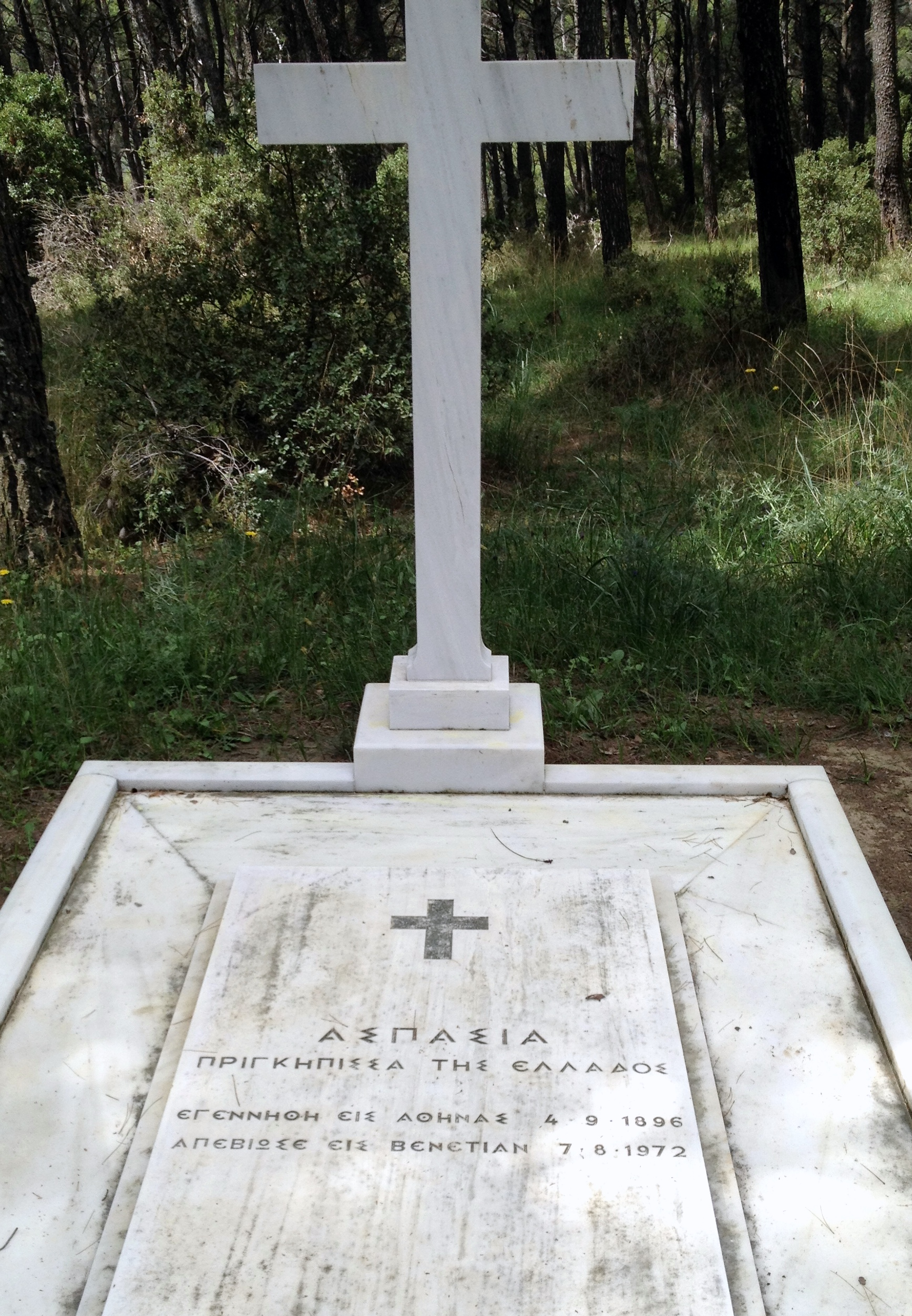 Tomb of Aspasia Manos Mvskoke: Ο τάφος της Ασπασίας Μάνου στο Τατόι